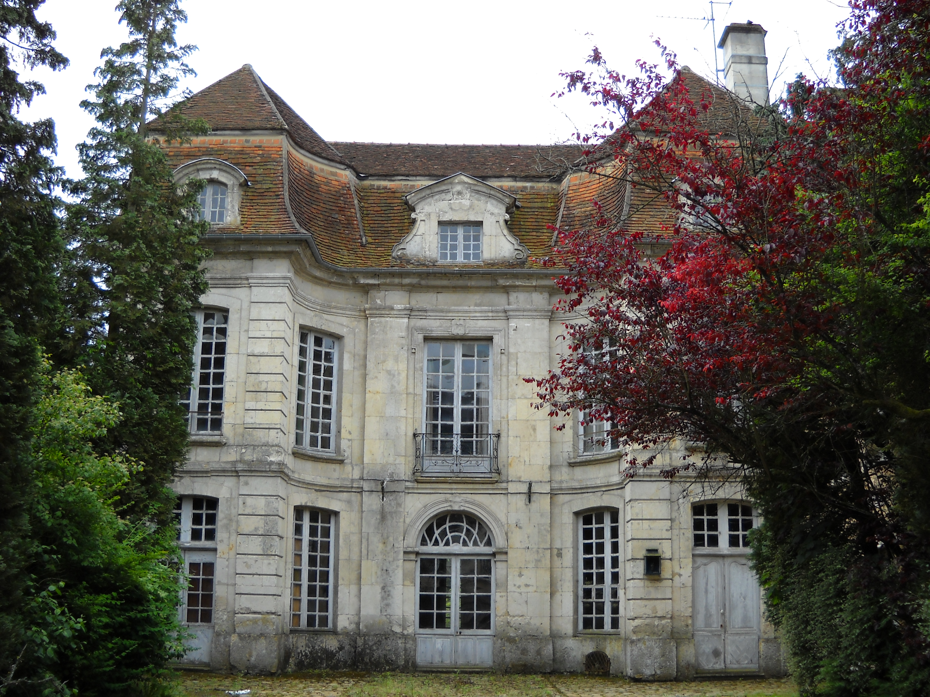 One of the rich houses in the center of Mortagne-au-Perche, Orne, France.